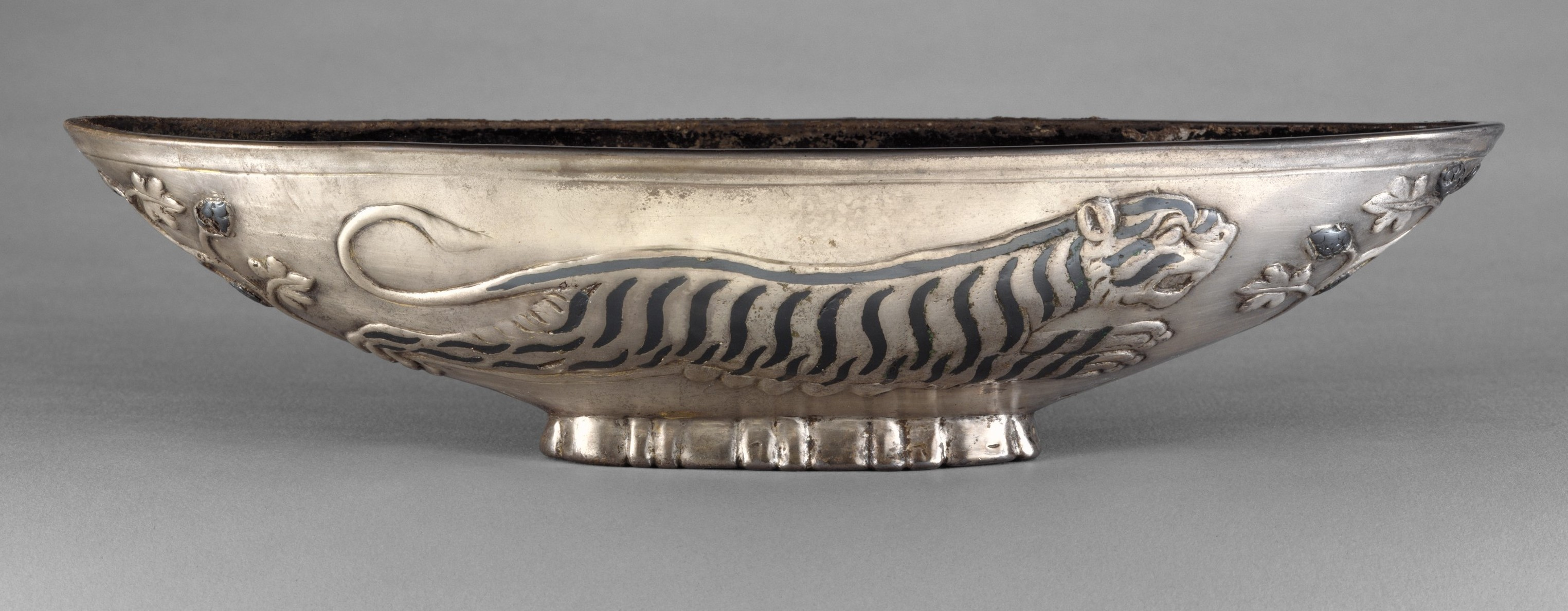 Sasanian; Bowl; Metalwork-Vessels-Inscribed